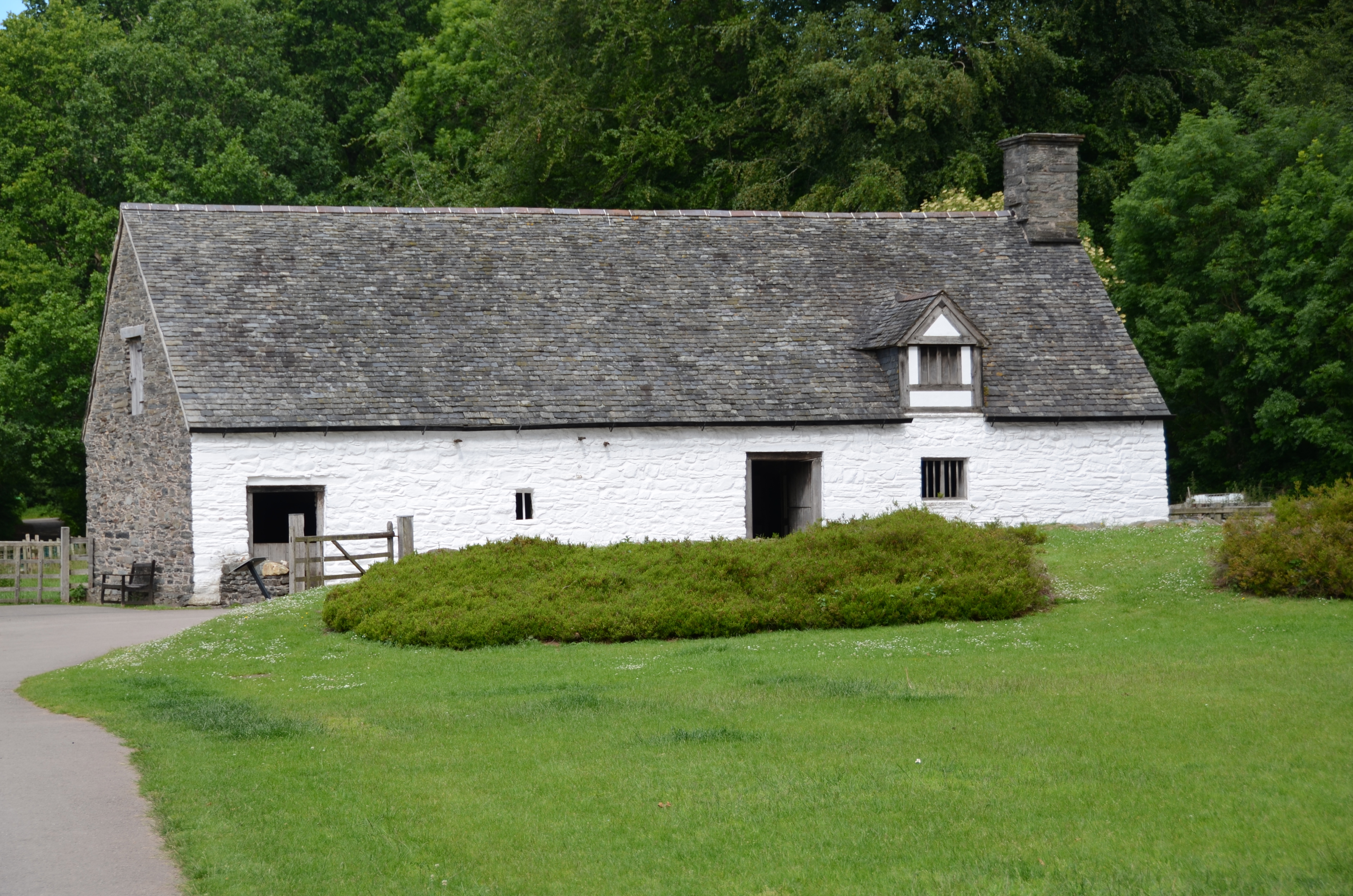 Cilewent farmhouse, St Fagans National History Museum, Cardiff, Wales